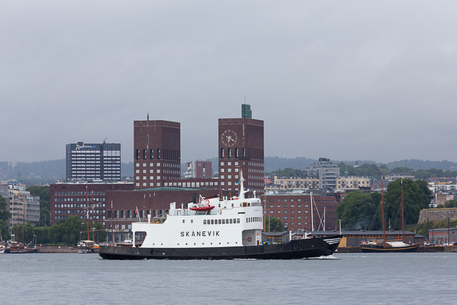 MF Skånevik participating in Kyststevnet 2014 in Oslo, Norway